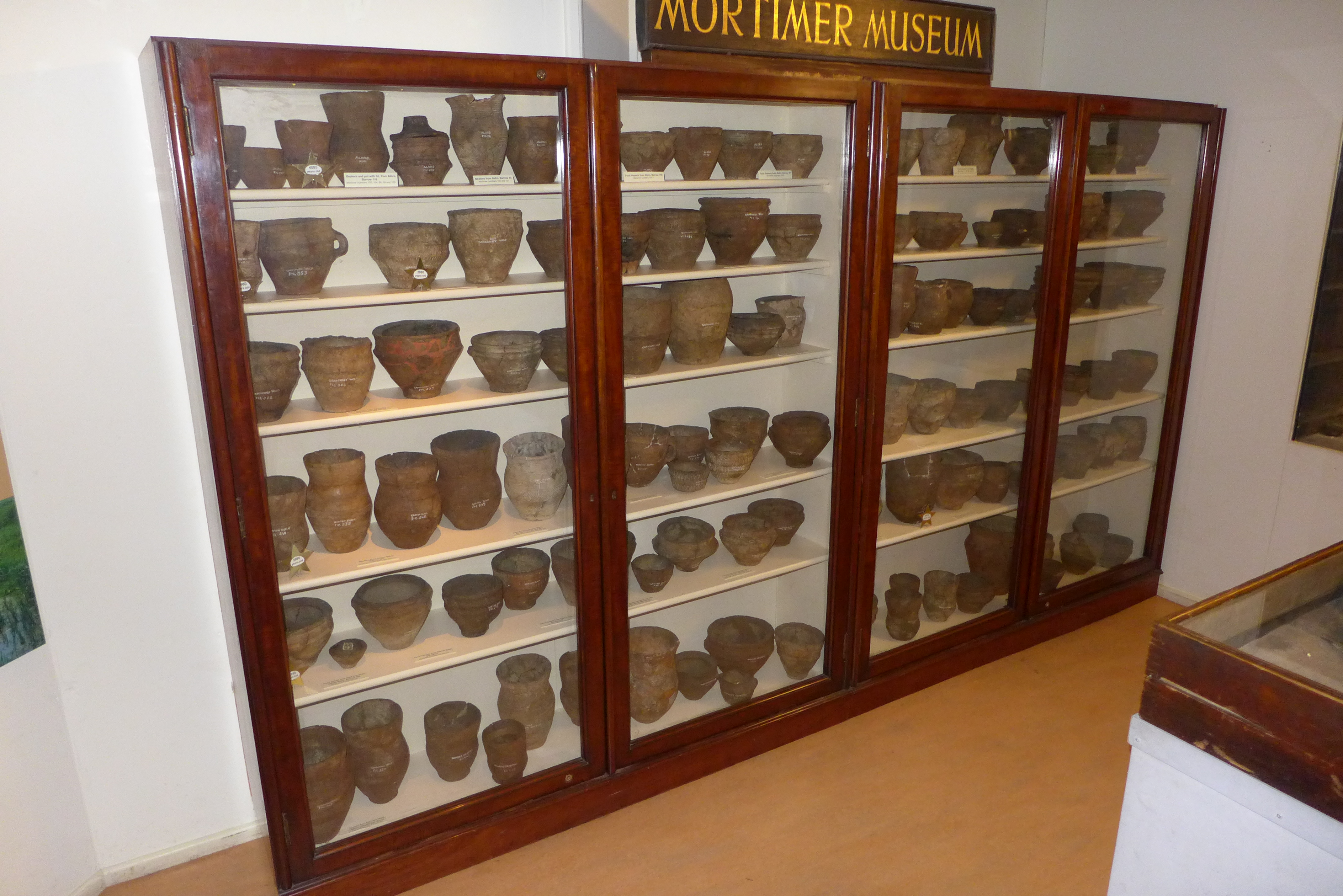 Hull Museum Stone Age East Riding